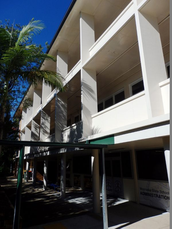 Block D; north elevation with verandahs and concrete fins, view from northwest (EHP, 2 June 2015)